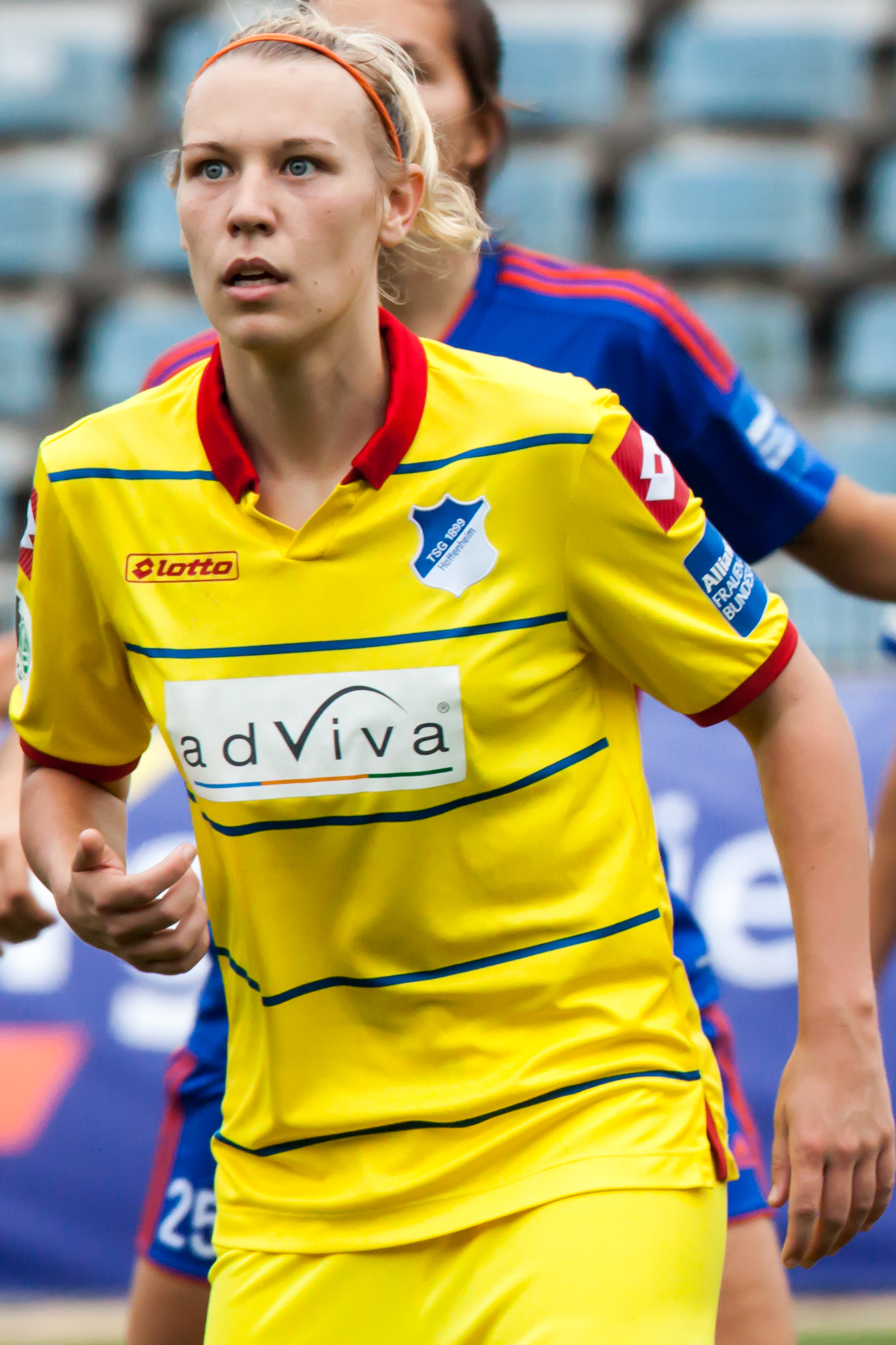 German Women Bundesliga soccer game: FF USV Jena vs. TSG 1899 Hoffenheim, 2014-10-11, at Ernst-Abbe-Sportfeld Jena.